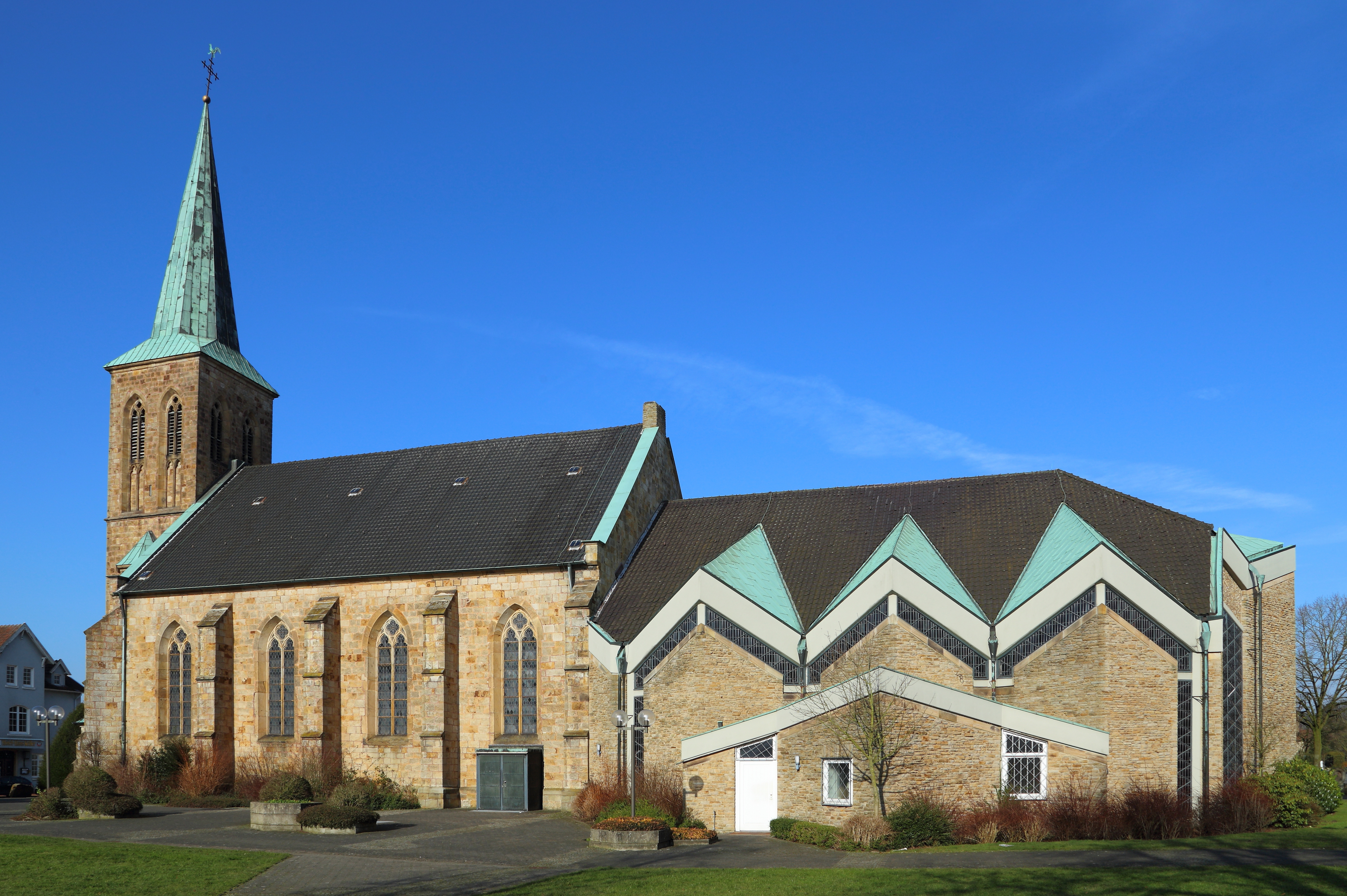 The Roman Catholic St Mary Magdalene Church (St.-Maria-Magdalena-Kirche) in Ibbenbüren-Laggenbeck, Kreis Steinfurt, North Rhine-Westphalia, Germany.